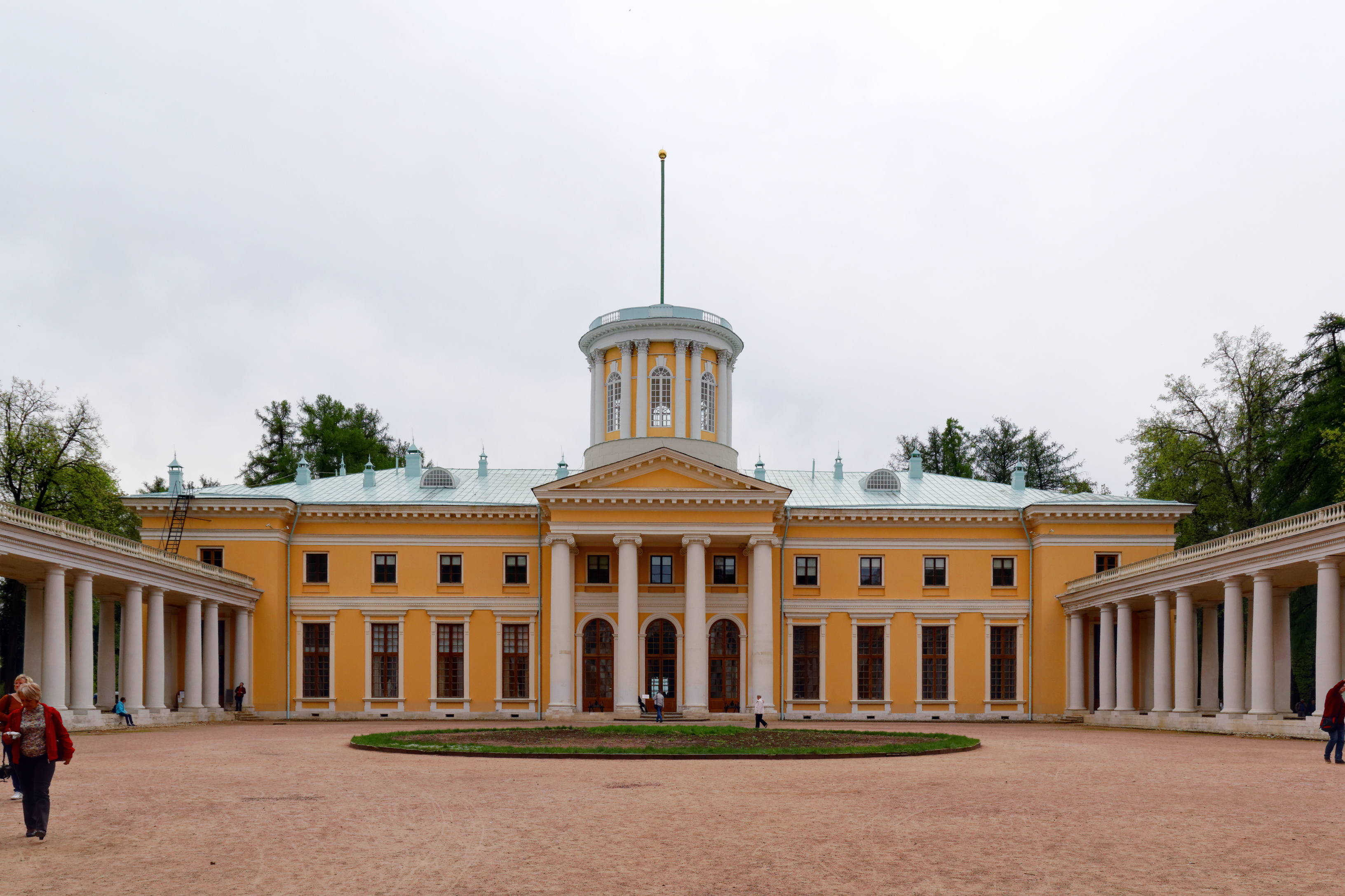 Arkhangelskoye estate